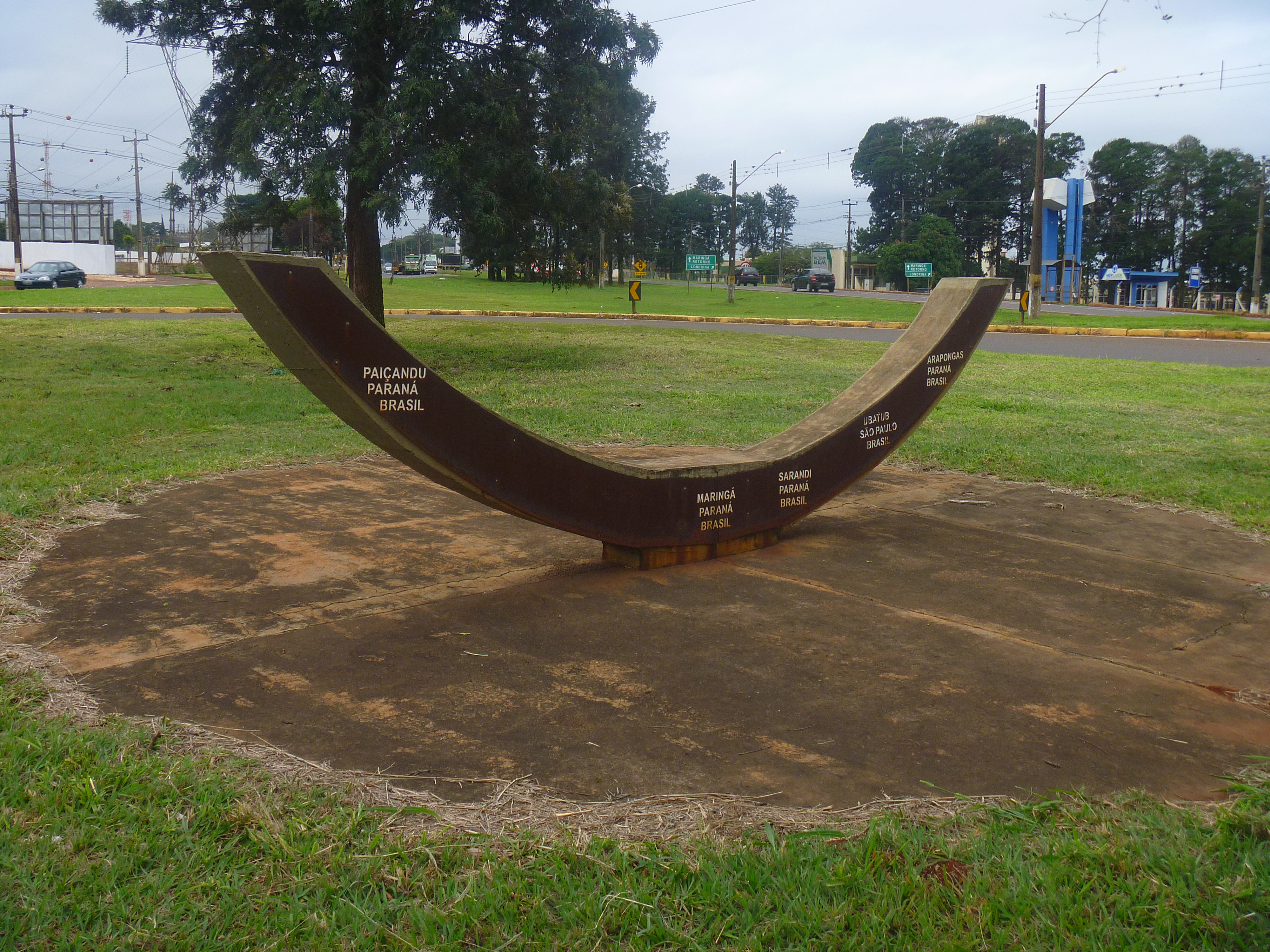 Maringa Location On Google Maps